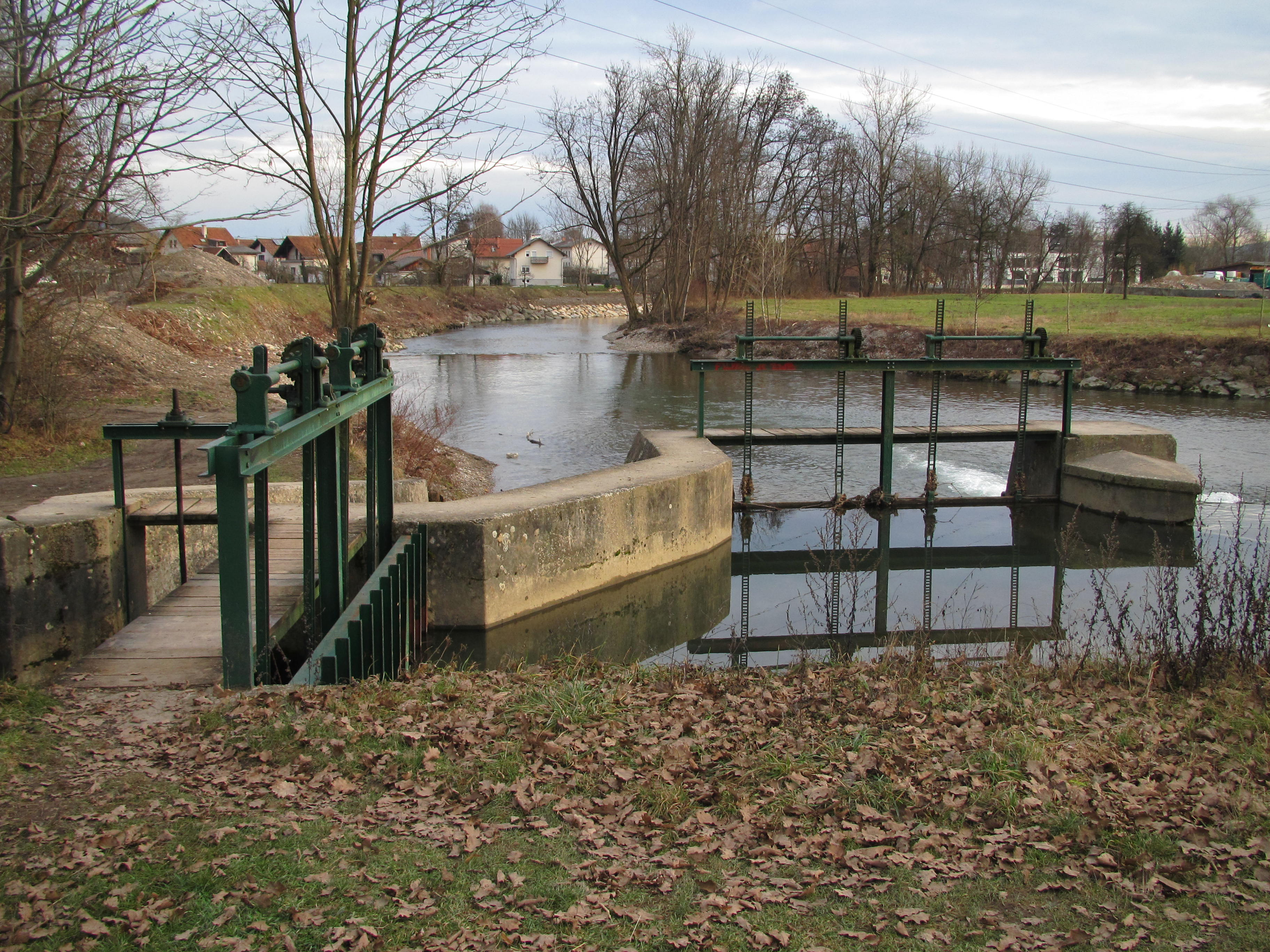 The sluice gates at the beginning of the Mali Graben in Ljubljana, Slovenia